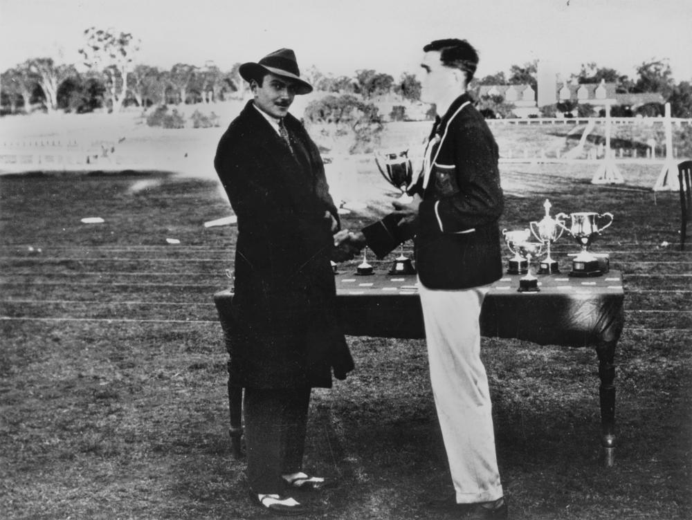 Presentation of sporting cups at Scots College, Warwick, ca. 1929. Charles Henry George Howard, Earl of Suffolk and Berkshire, Viscount Andover and Baron Howard, presenting a sporting cup to the Open Sporting Champion of Scots College, D. Thompson. (Description supplied with photograph.).